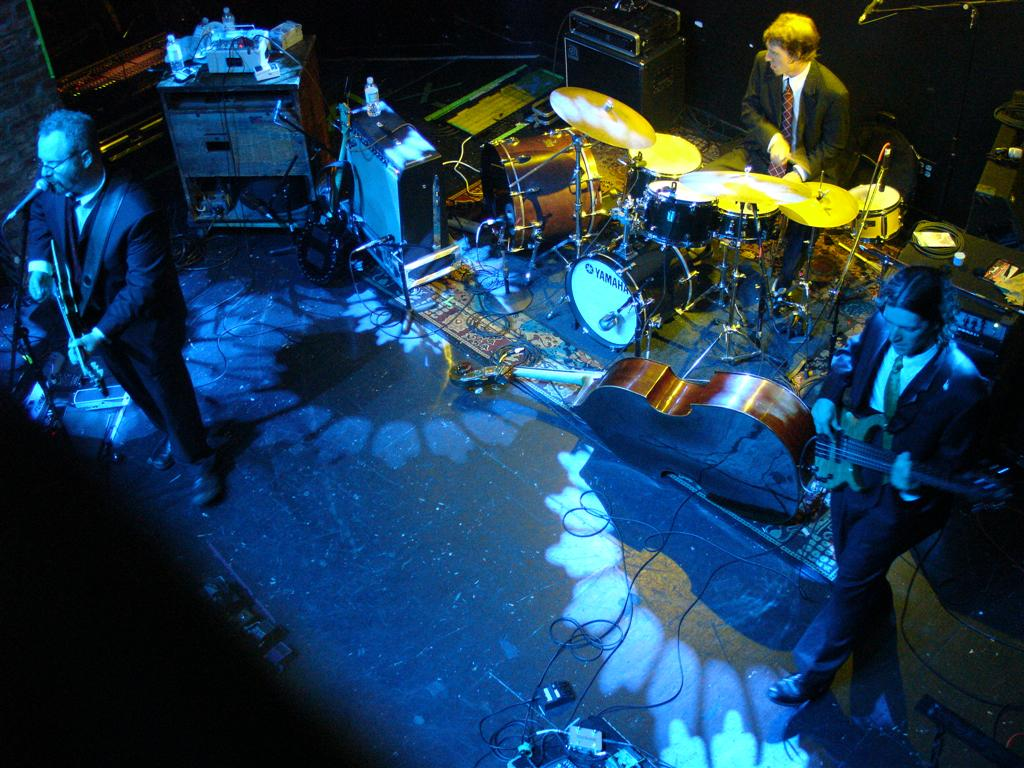 CodeTalkers @ The Freebird Live Jacksonille, FL June 2007